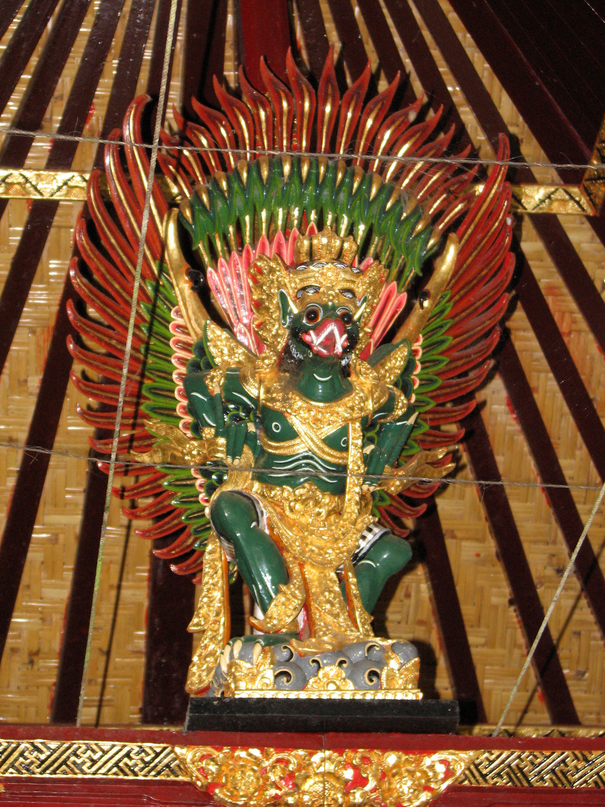 Garuda, mount of Vishnu. Temple of Gunung Kawi (Bali, Indonesia)